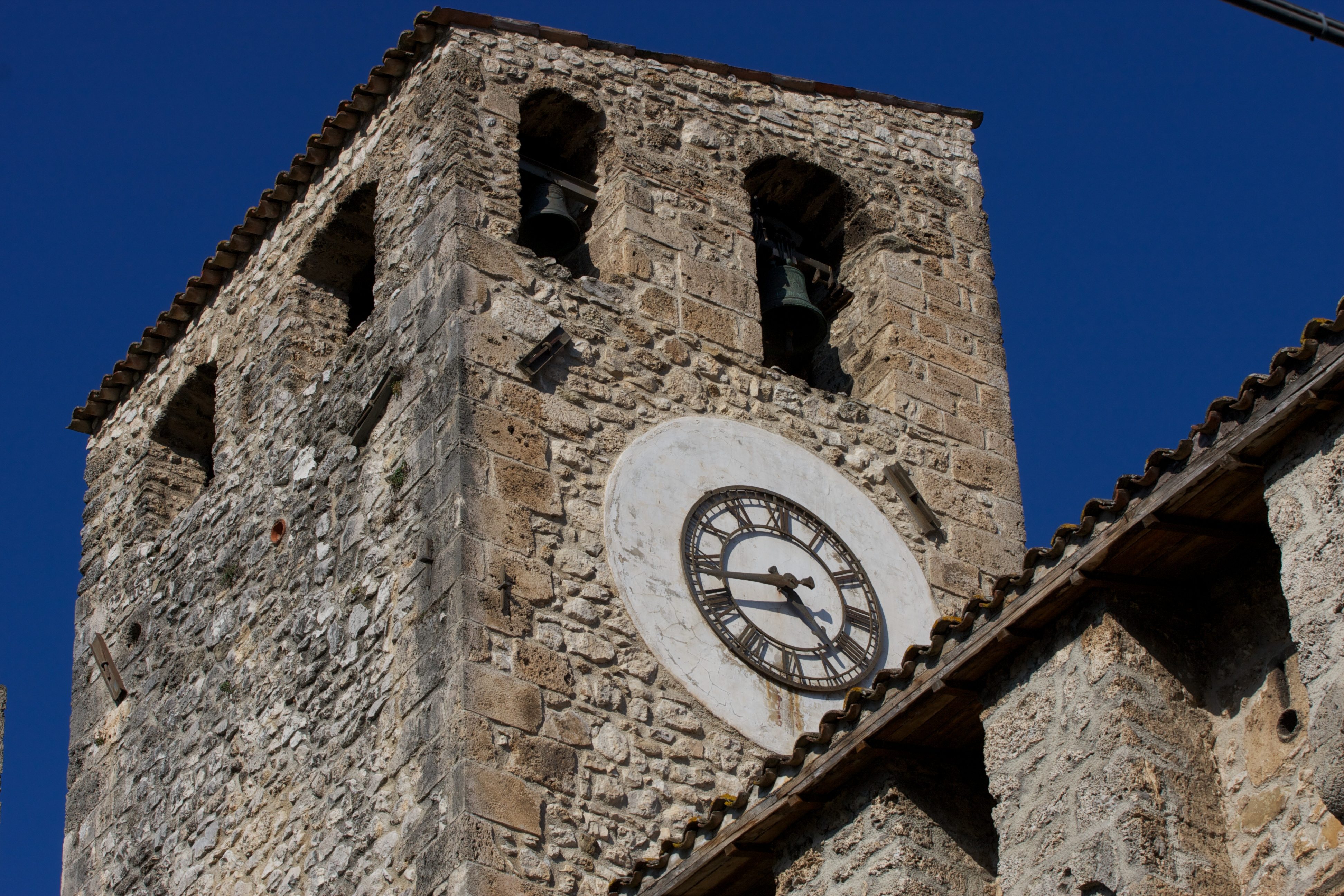 Bell tower of Castel Sant'Angelo (Lazio, Italy)